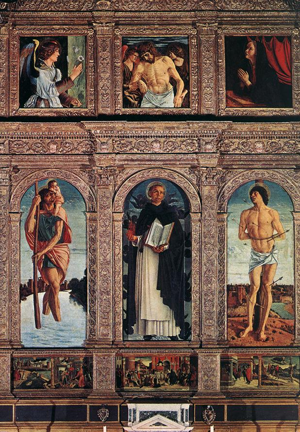 (topleft to bottomright) Angel of Annunciation, Jesus, Virgin Mary, Saint Christopher, Saint Vincent Ferreri, Saint Sebastian